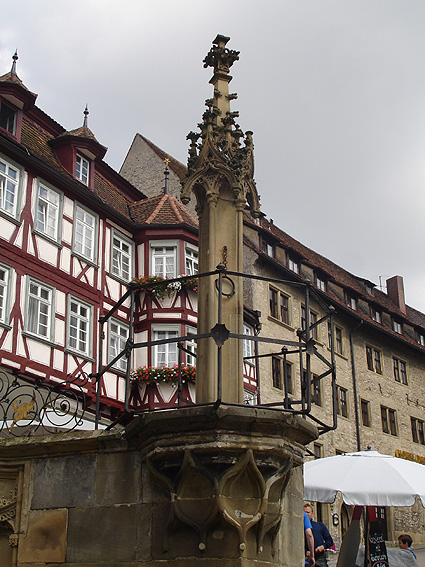 Schwäbisch Hall, gothic pillory (early 16th century) at the market square.